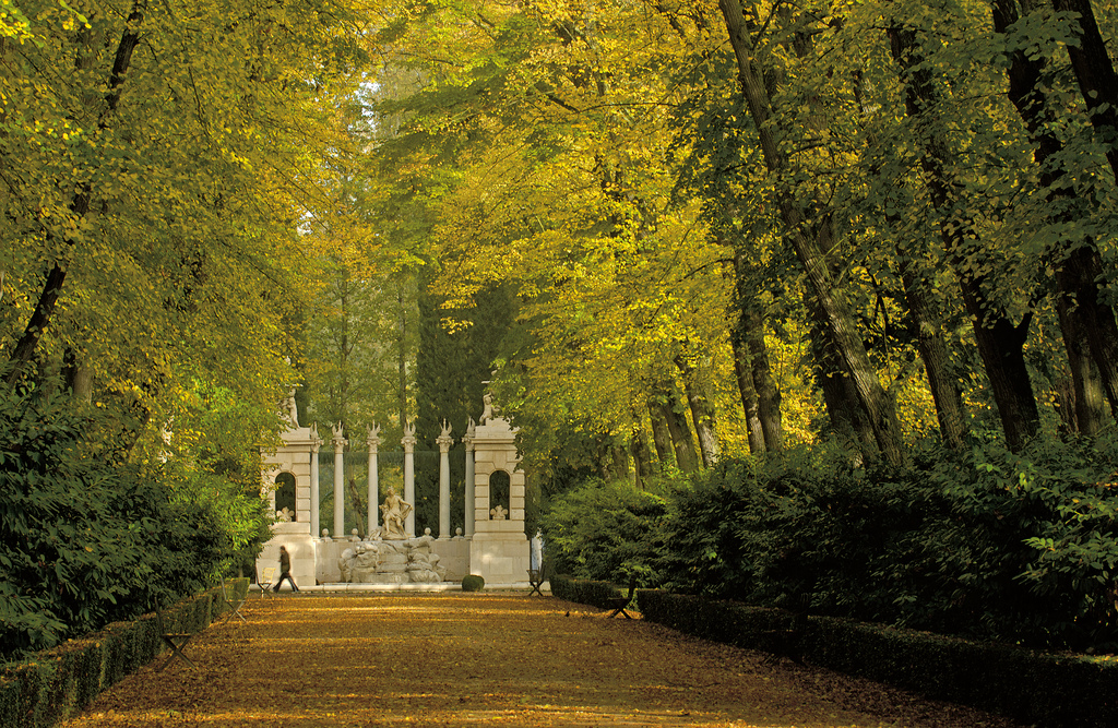 Palace of Aranjuez - Gardens of Apollo This photograph can be used for publications, including this copyright statement: “©PromoMadrid, author Max Alexander”. Esta fotografía puede usarse en publicaciones, incluyendo la declaración “©PromoMadrid, autor Max Alexander”.